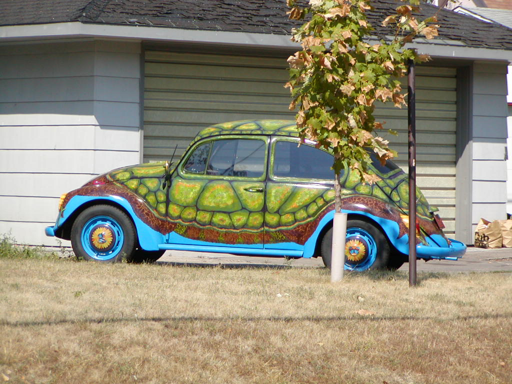 Art car seen in Minnesota.